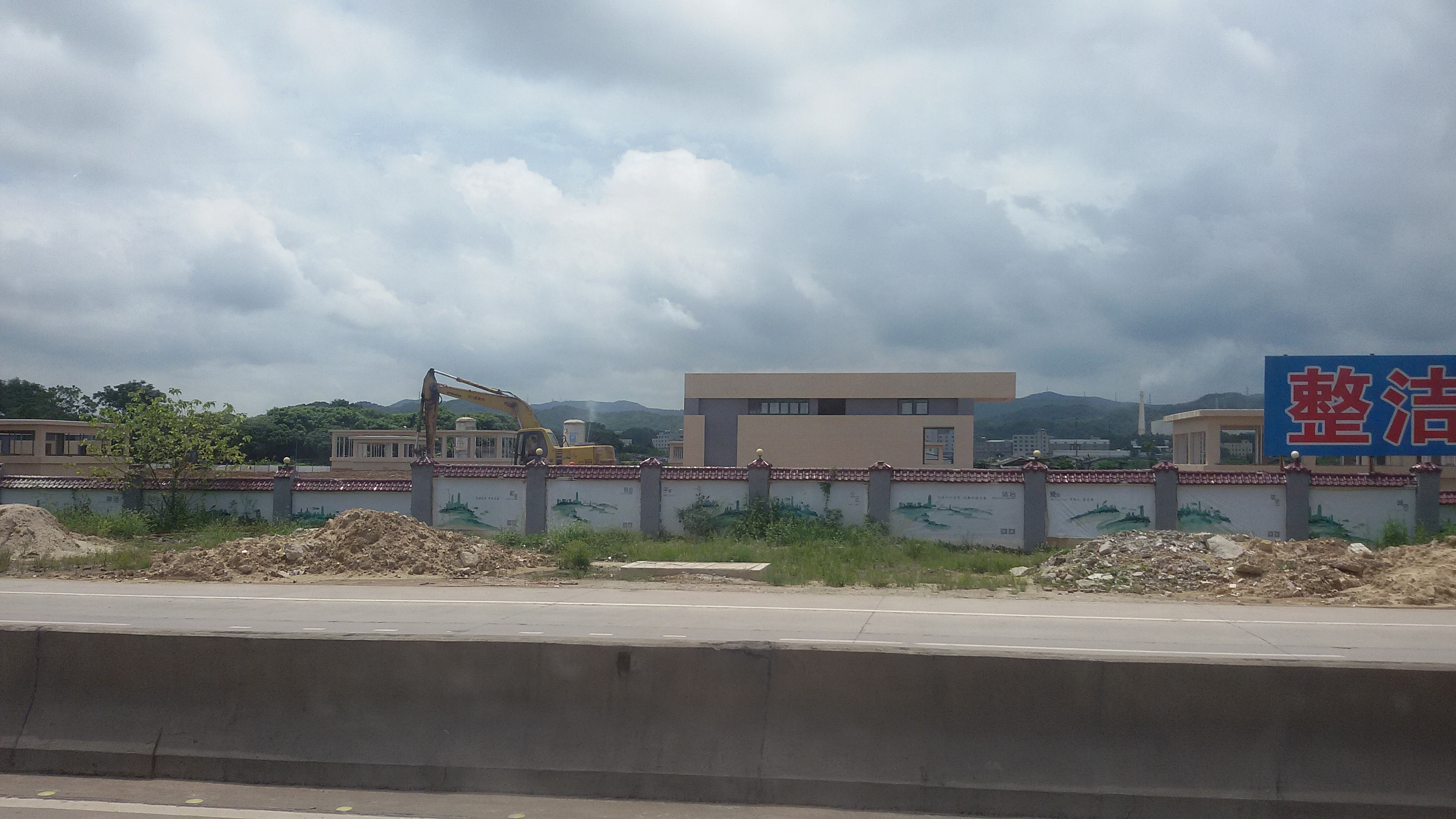 Shihu Parking at Line 14, Guangzhou Metro